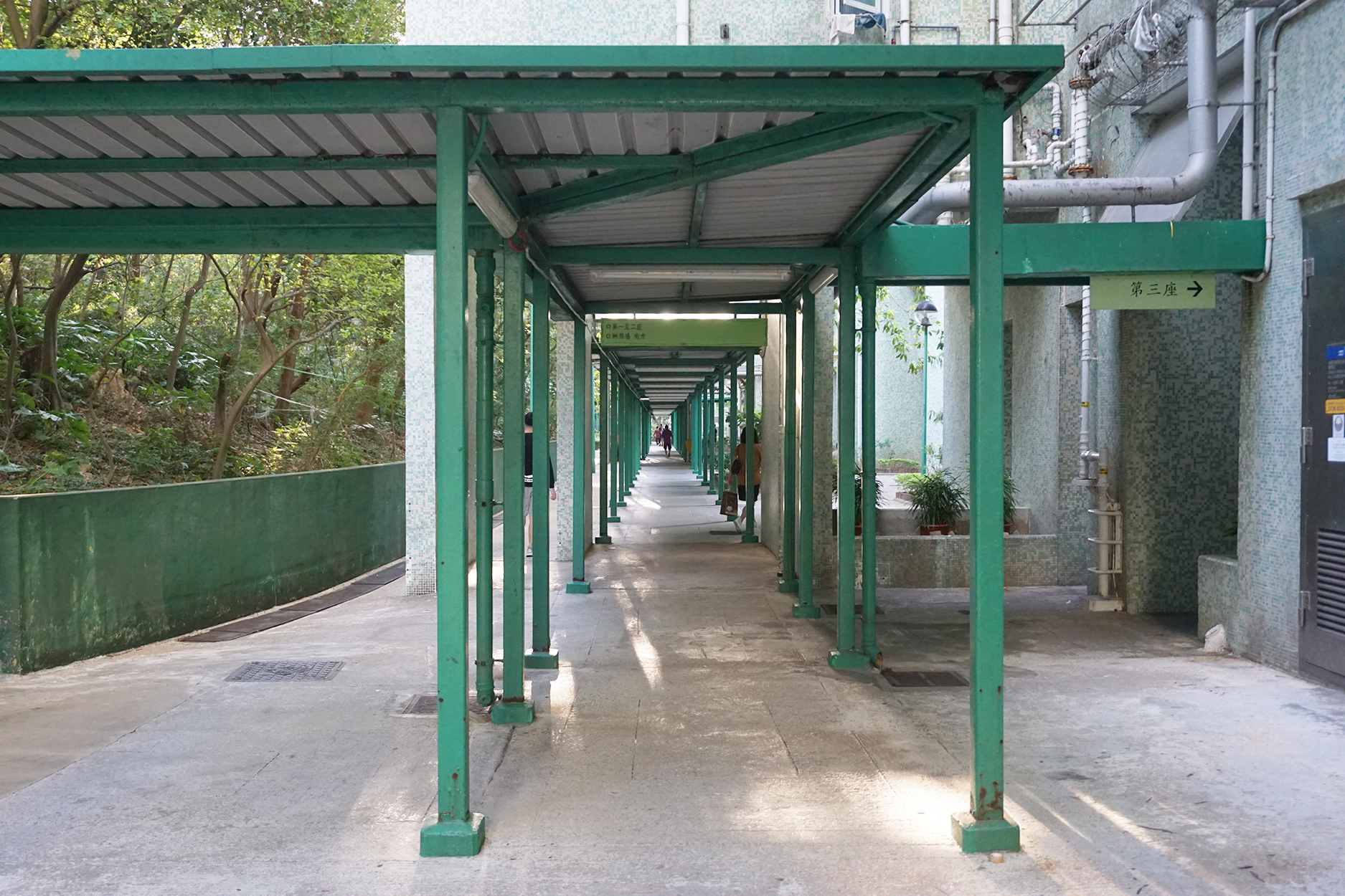 Saddle Ridge Garden in Ma On Shan, Hong Kong.